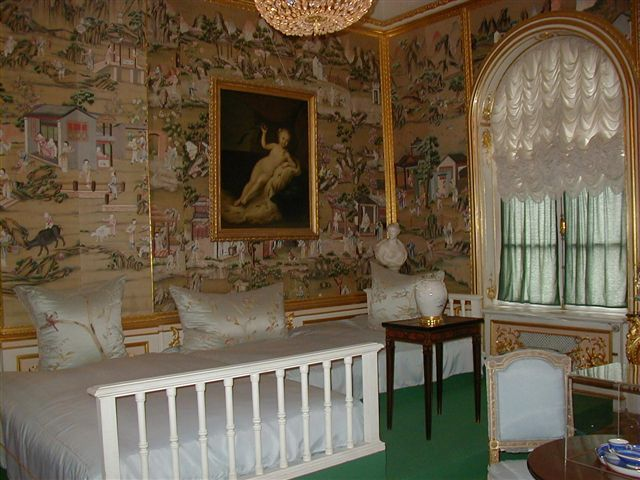 French style interior of the Peterhof, sleeping room.